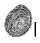 Drawing of an operculum of Bithynia leachii. Scale bar is 1 mm.